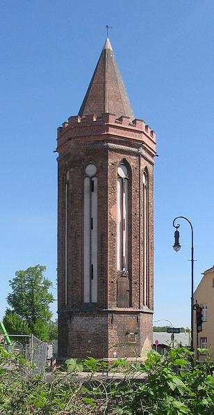 Neustädtischer Mühlentorturm, built in 1411, one of the four still existing of the formerly nine gate towers in Brandenburg an der Havel, state Brandenburg, Germany.